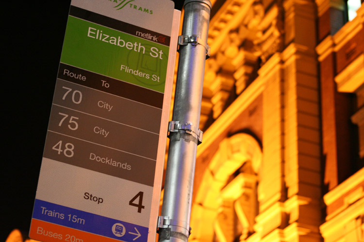 New Metlink signage outside Flinders Street Station